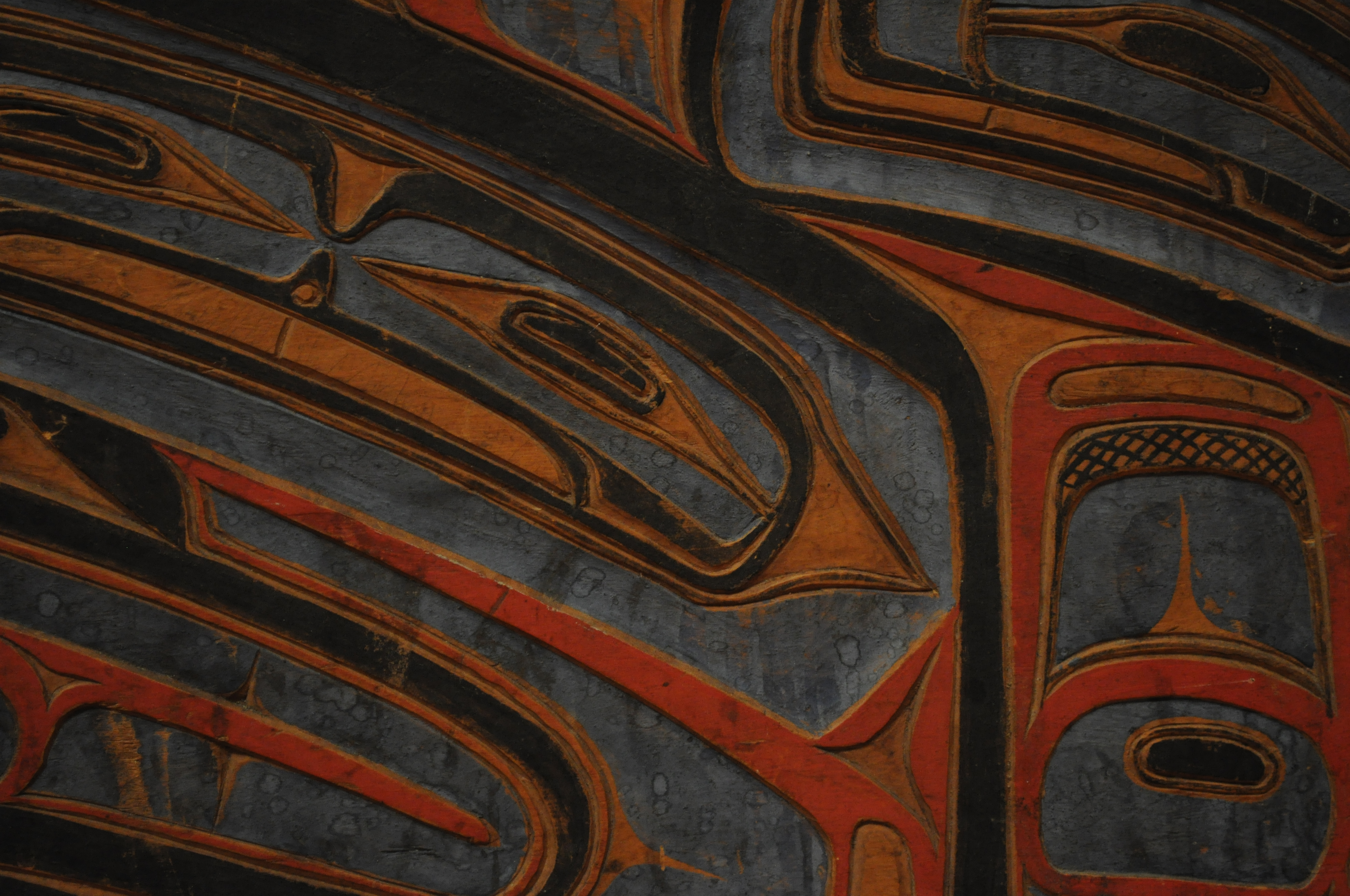 Bent-corner chest